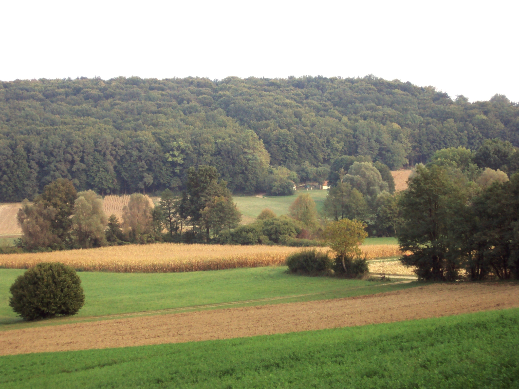 Village of Puricani, Bjelovar, Croatia